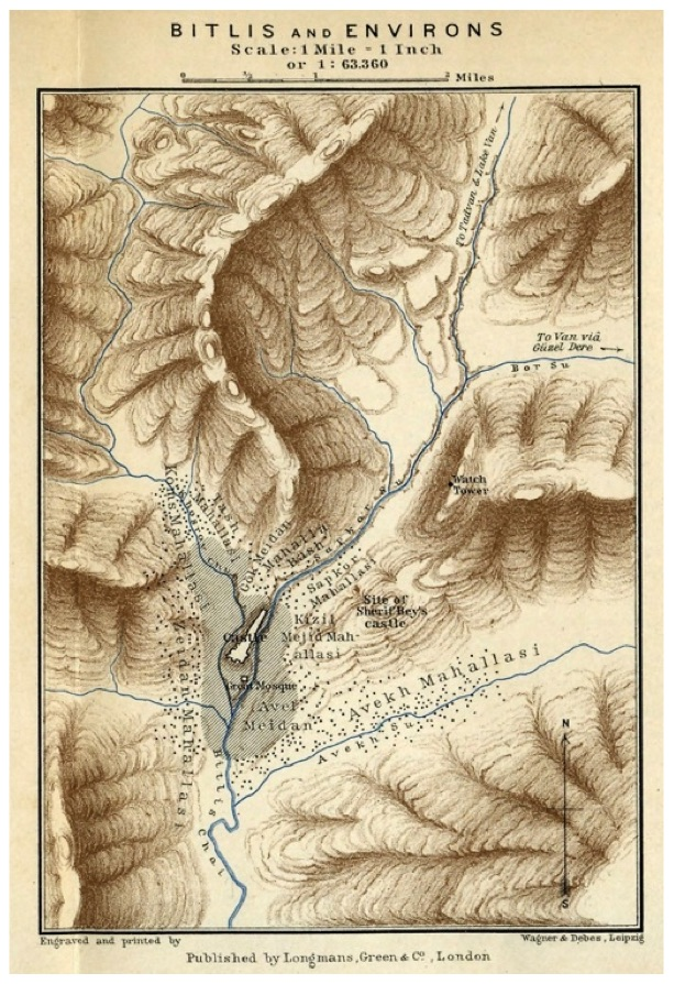 Lynch map Bitlis and environs